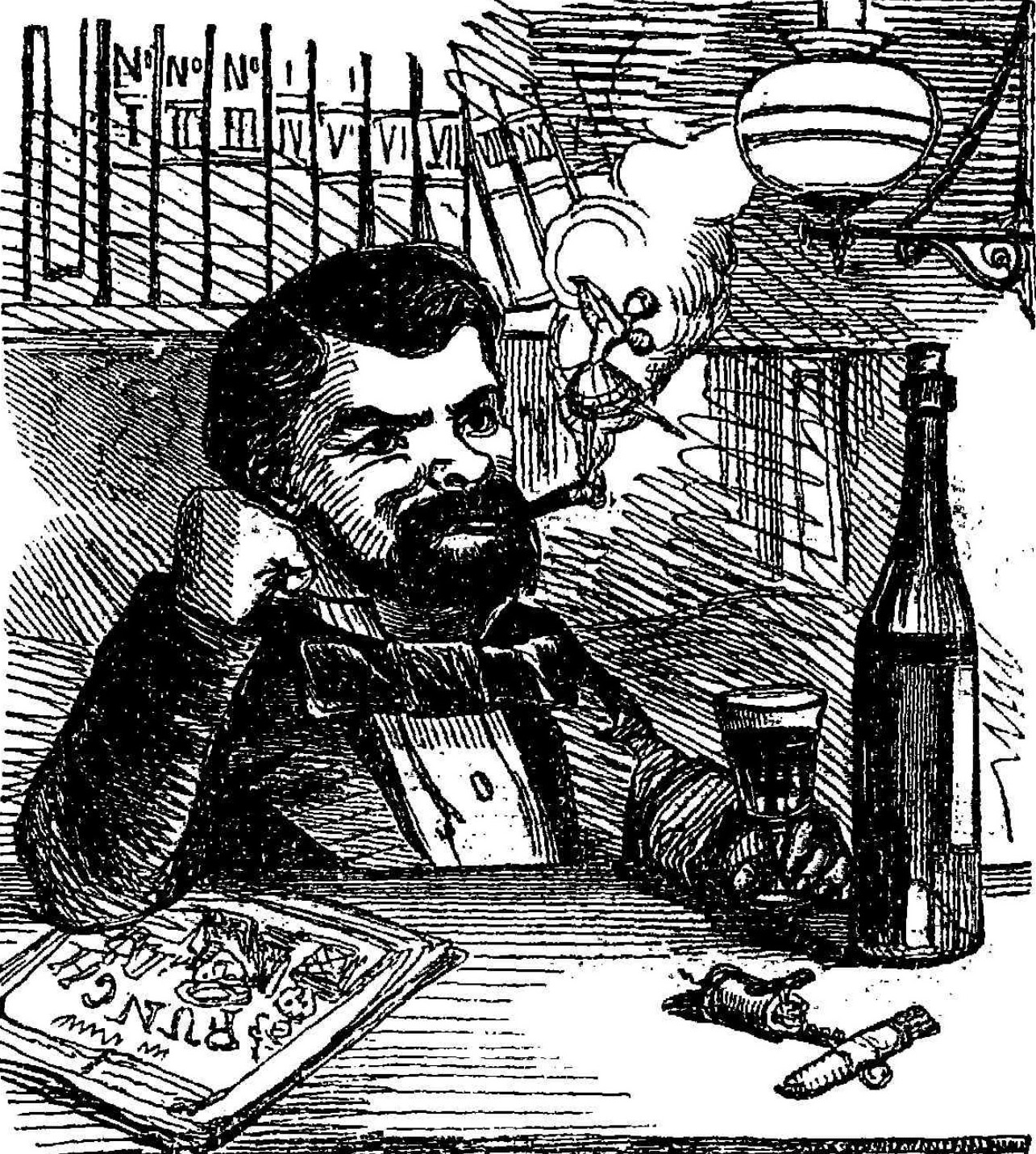 Satirical self-depiction of Melbourne Punch’s engraver Samuel Calvert (part of the two-panel cartoon).